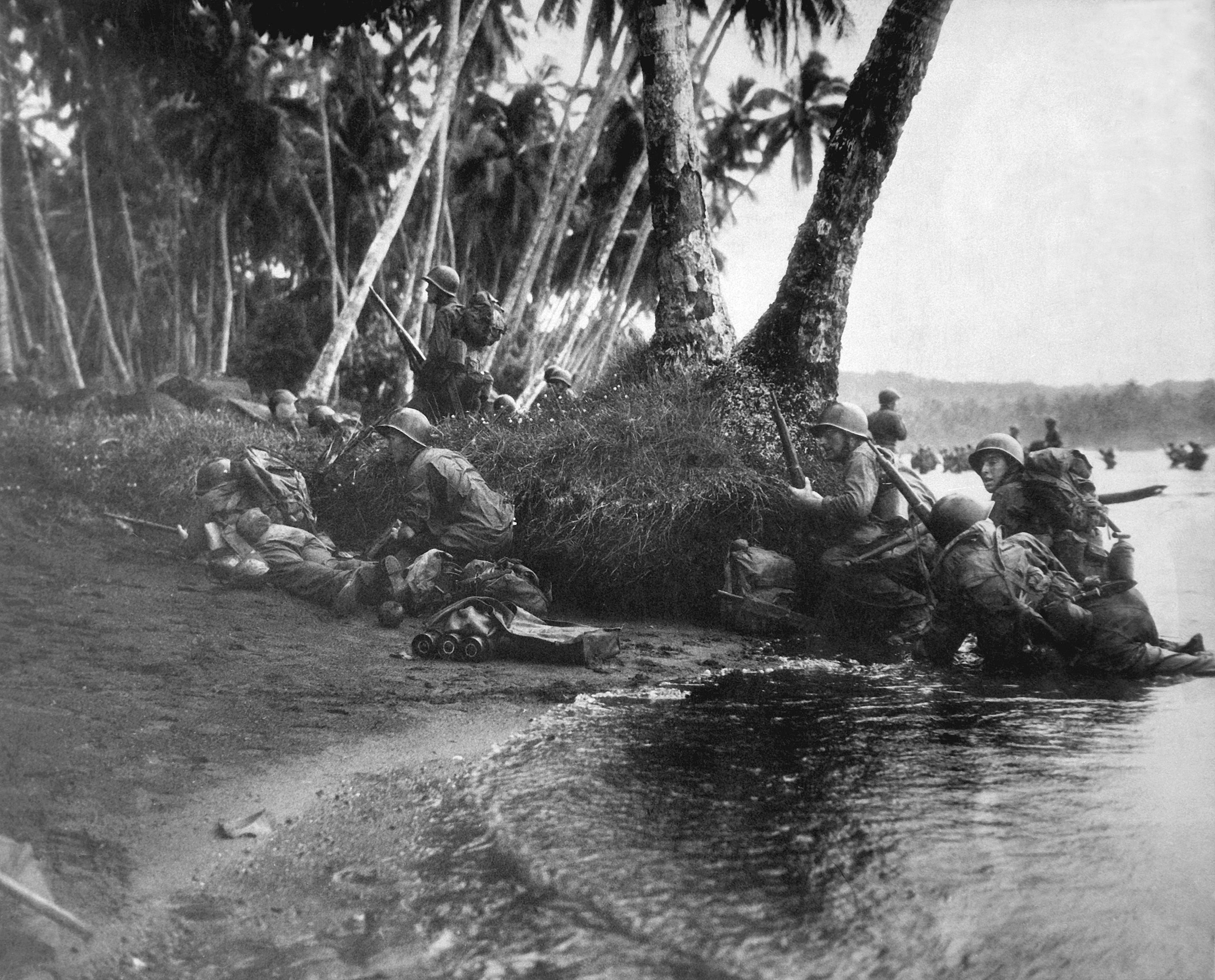 Landing operations on Rendova Island, Solomon Islands, 30 June 1943. Attacking at the break of day in a heavy rainstorm, the first Americans ashore huddle behind tree trunks and any other cover they can find. (Navy) NARA FILE #: 080-G-52573---WAR & CONFLICT BOOK #: 1176--- original filename is HD-SN-99-02835.JPEG ('The soldier behind the tree looking toward the camera is believed to be Army Private First Class Clayton Sholes. Claims of other individuals in this picture have yet to be proven. He was 1st Scout, Company B, 172 Batalion, 43rd Division, United States Army. Two months after this photo was taken, he was wounded by shrapnel on Munda (New Georgia) and subsequently evacuated to Auckland, New Zealand. Clayton Sholes died at the age of 93 in August of 2012. He lived in the town of Ada, northwestern Minnesota, for most of his life except his service in the United States Army. The image of himself looking toward the camera was confirmed by him numerous times in his life including details of WHO took the picture, which was a Navy photographer. This image, which is now widely circulated on the internet was searched for, and found in 1994 (pre-internet) at the National Archives by his grandson. The archivist who helped his grandson find the image told him the orignal negative hadn't been viewed for thirty years. She also confirmed that the person who took the photograph was a Navy photographer because of the way it was catalogued at the National Archives. Source: Clayton Sholes, Grandson Jon Van Amber )